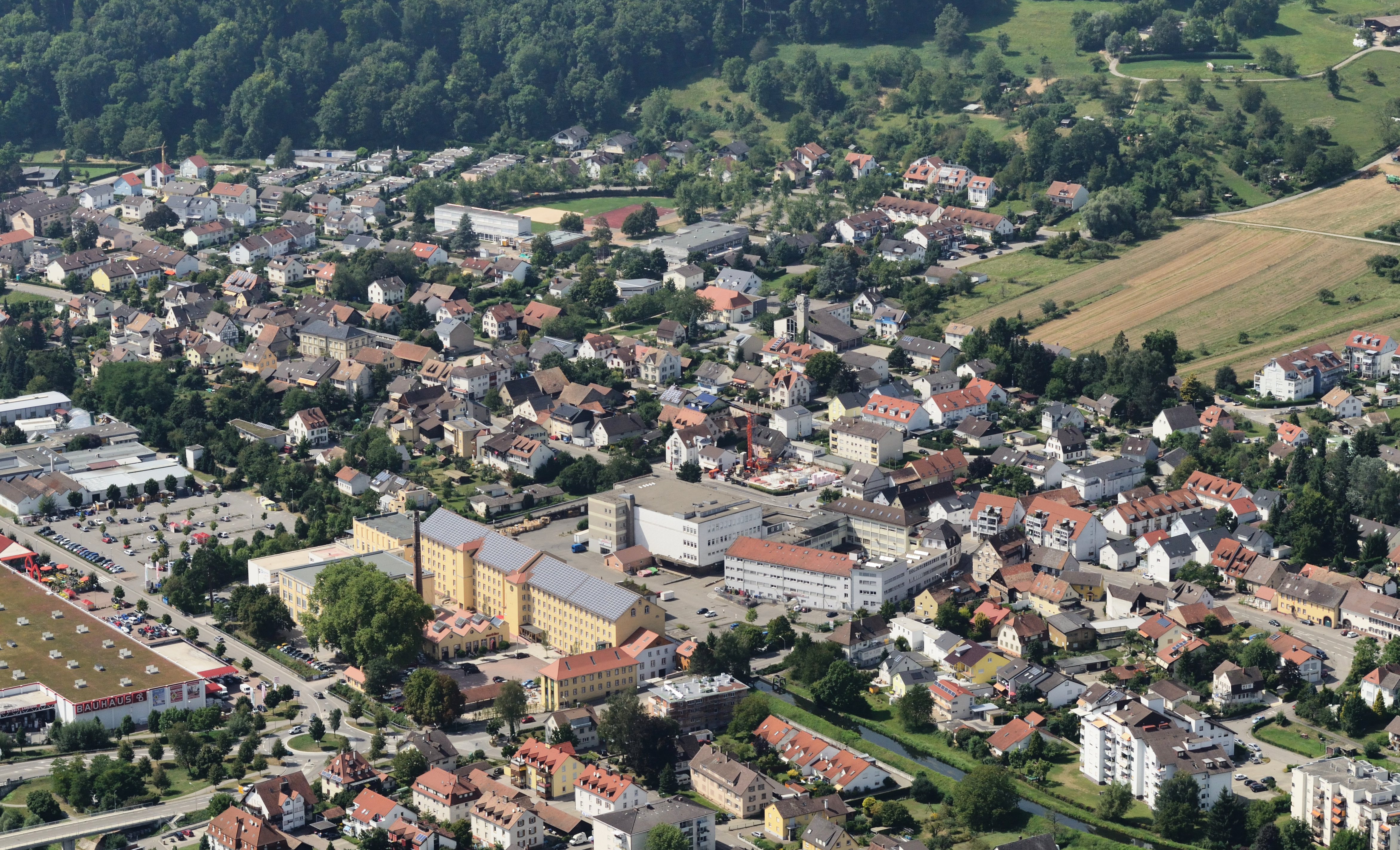 aerial view of Haagen